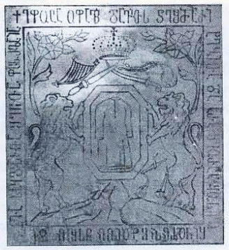 Bagrationi COA on Queen Tinatin Gurieli's tombstone in Akhali Shuamta